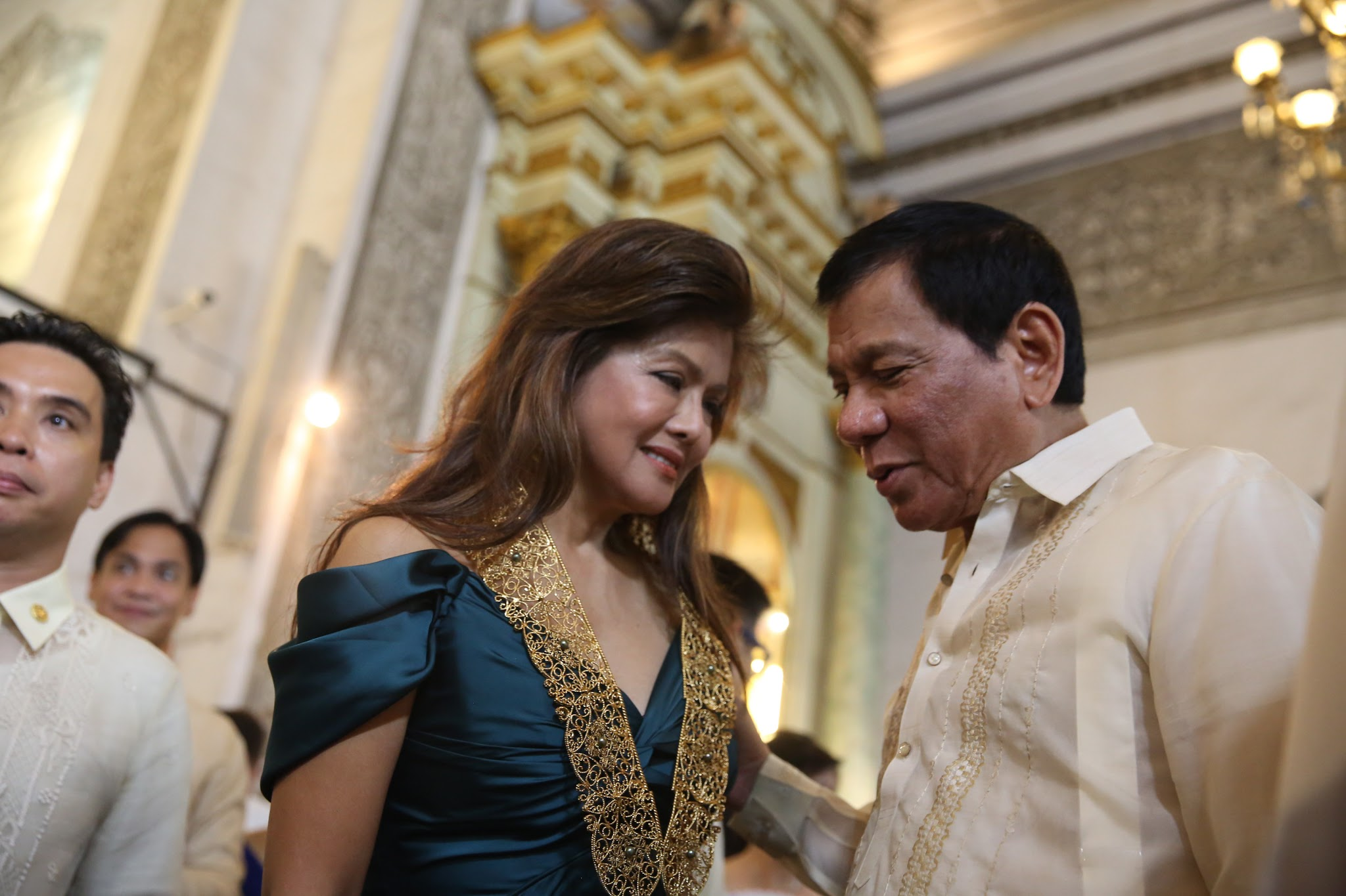 President Rodrigo Duterte talks to Ilocos Norte Governor Imee Marcos on the sideline at Waldo and Regine Carpio's wedding ceremony at San Agustin Church in Intramurous, Manila on September 16.